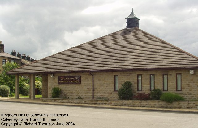 Kingdom Hall of Jehovahs Witnesses, CalverleyLane, Horsforth.